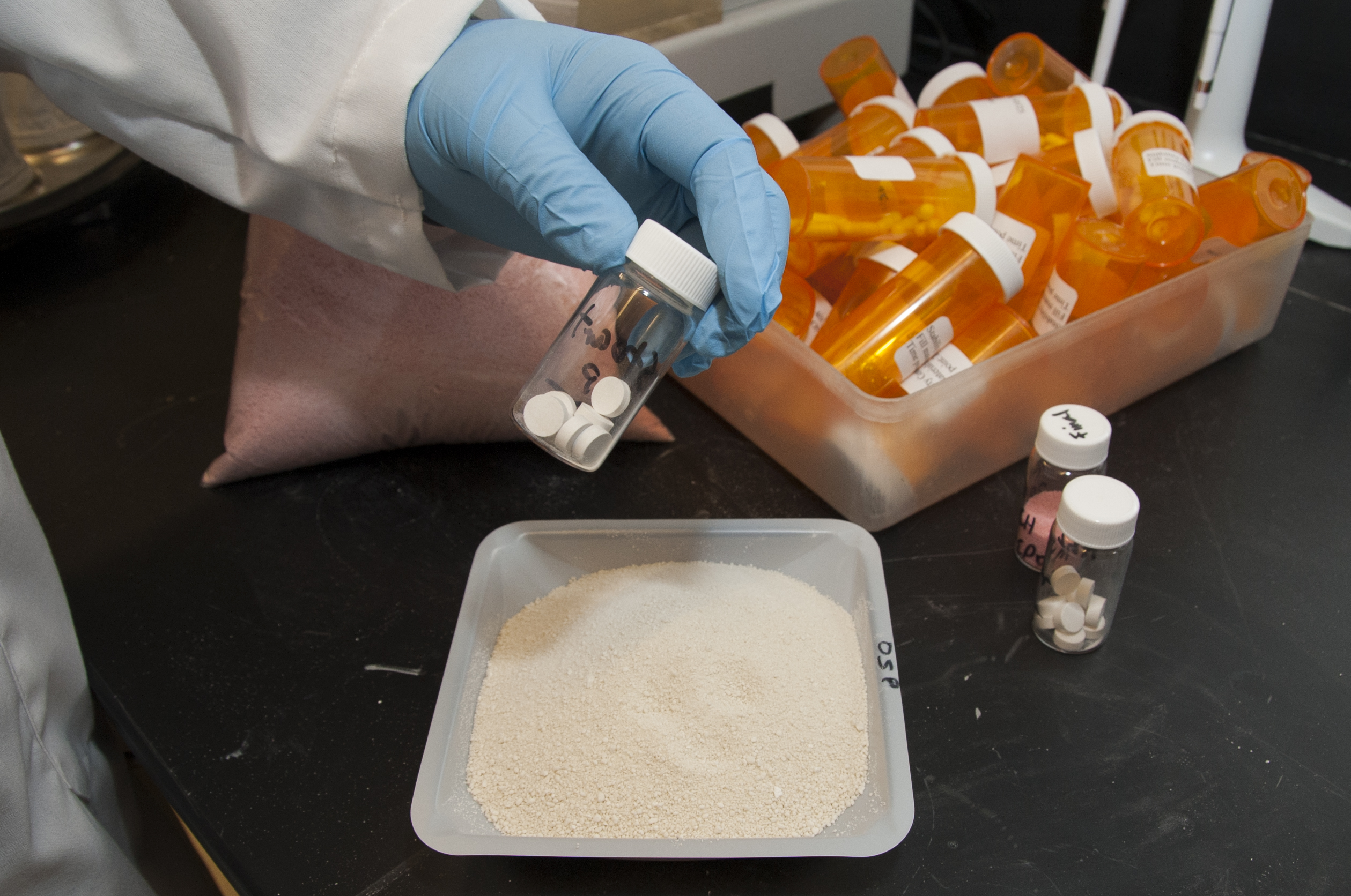 An FDA scientist evaluates beads used for coating a controlled-release product. When evidence arises that an FDA-approved generic drug is less effective than previously thought, FDA’s Division of Product Quality Research may recreate the drug from scratch and test it with improved methods. For more information about FDA's generic drug research, read this Consumer Update: FDA photo by Michael J. Ermarth